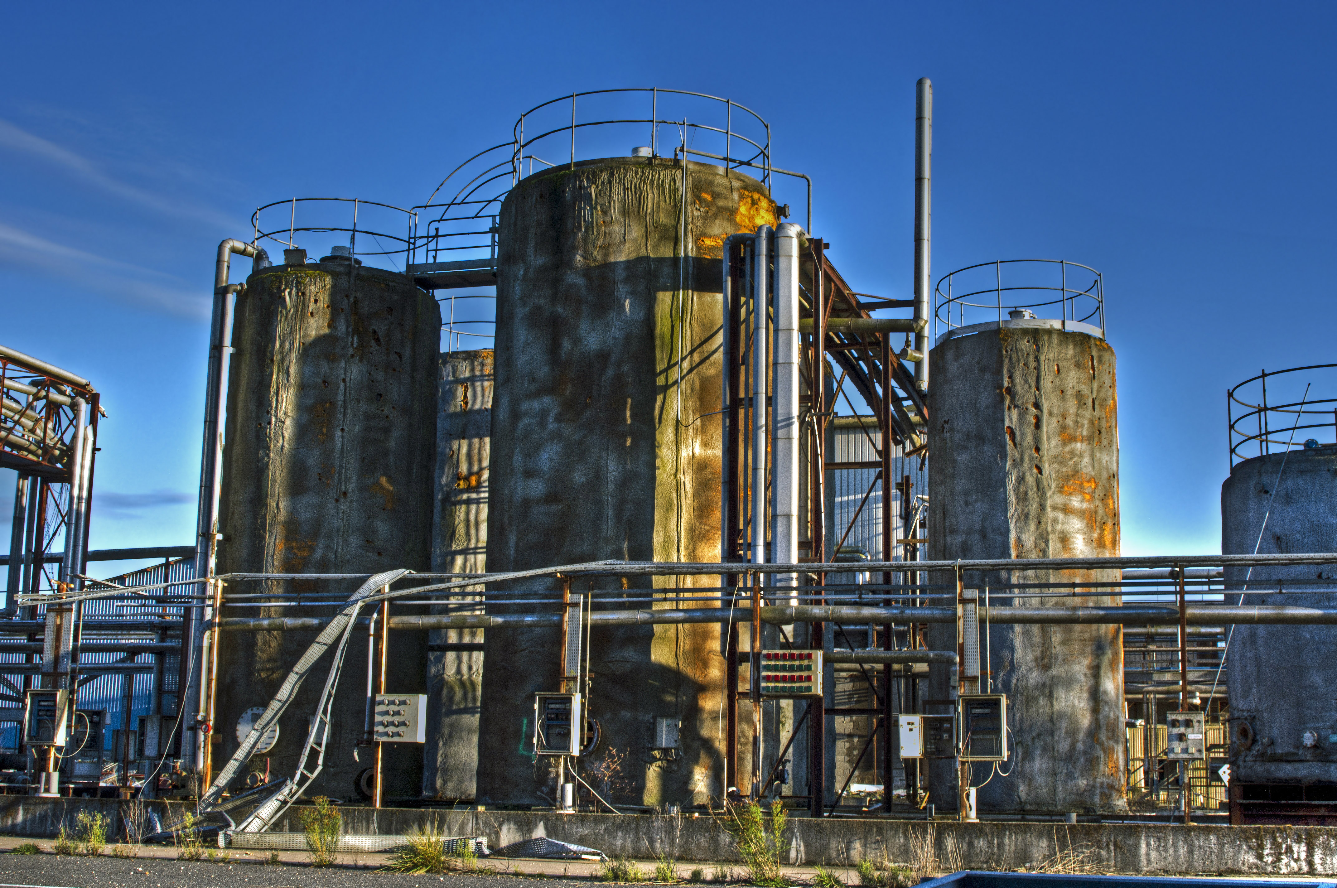 Alizol factory, Ouzouer-sur-Trézée, Loiret, France.